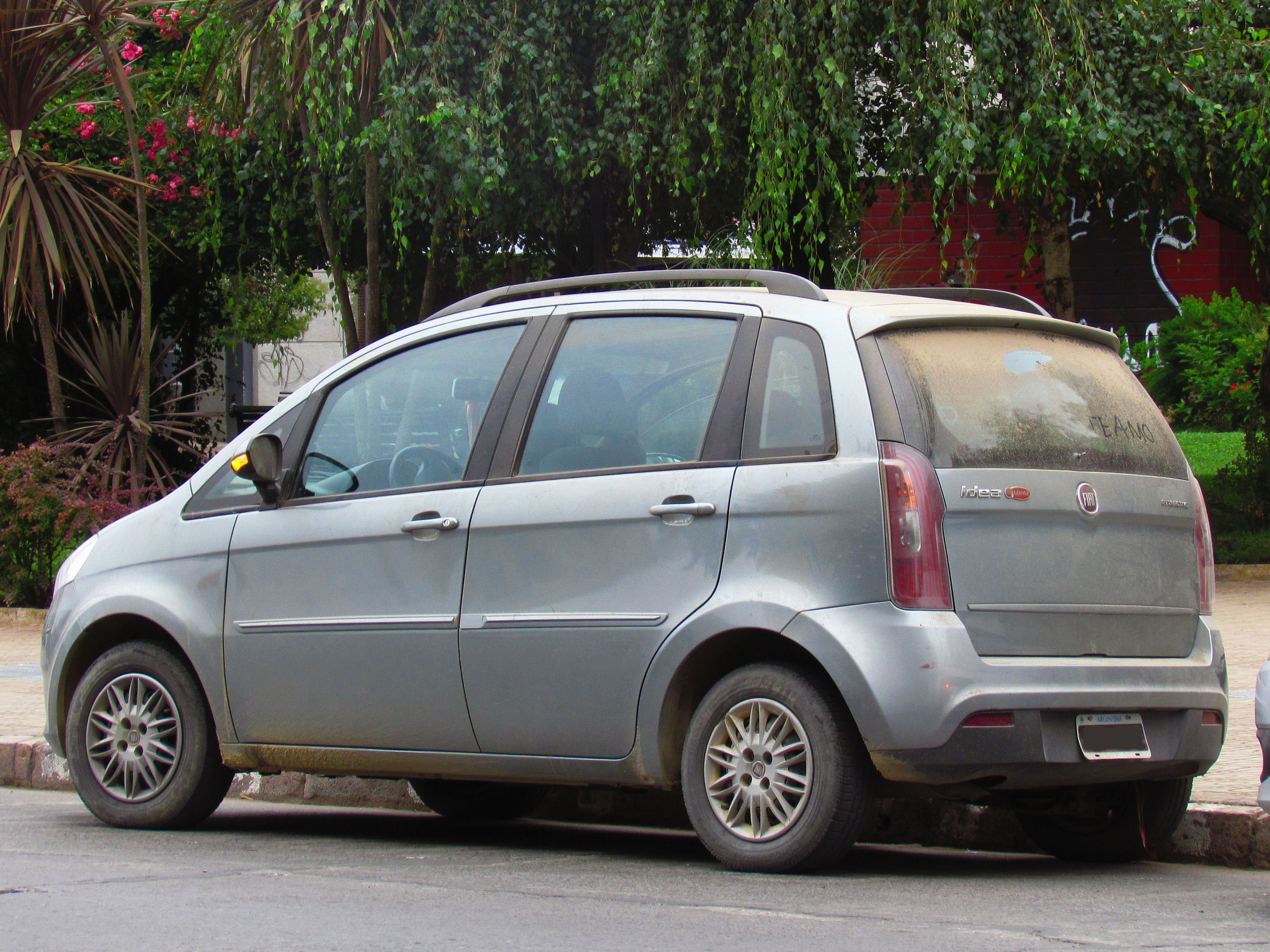 Fiat Idea 1.4 Atractive 2011